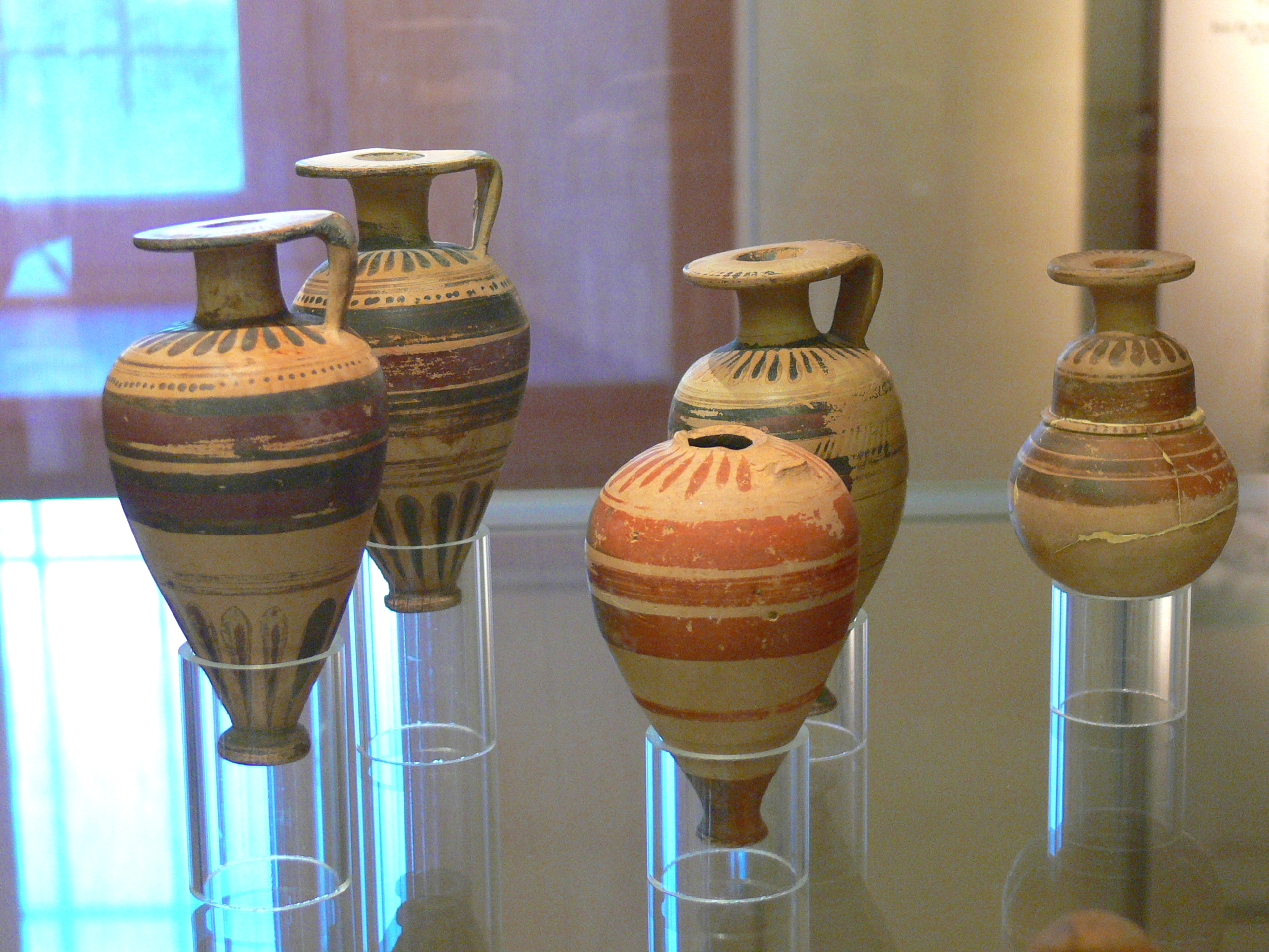 Archaeological museum ( Piombino ). Ancient Greek unguentaria